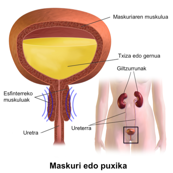 Urinary bladder